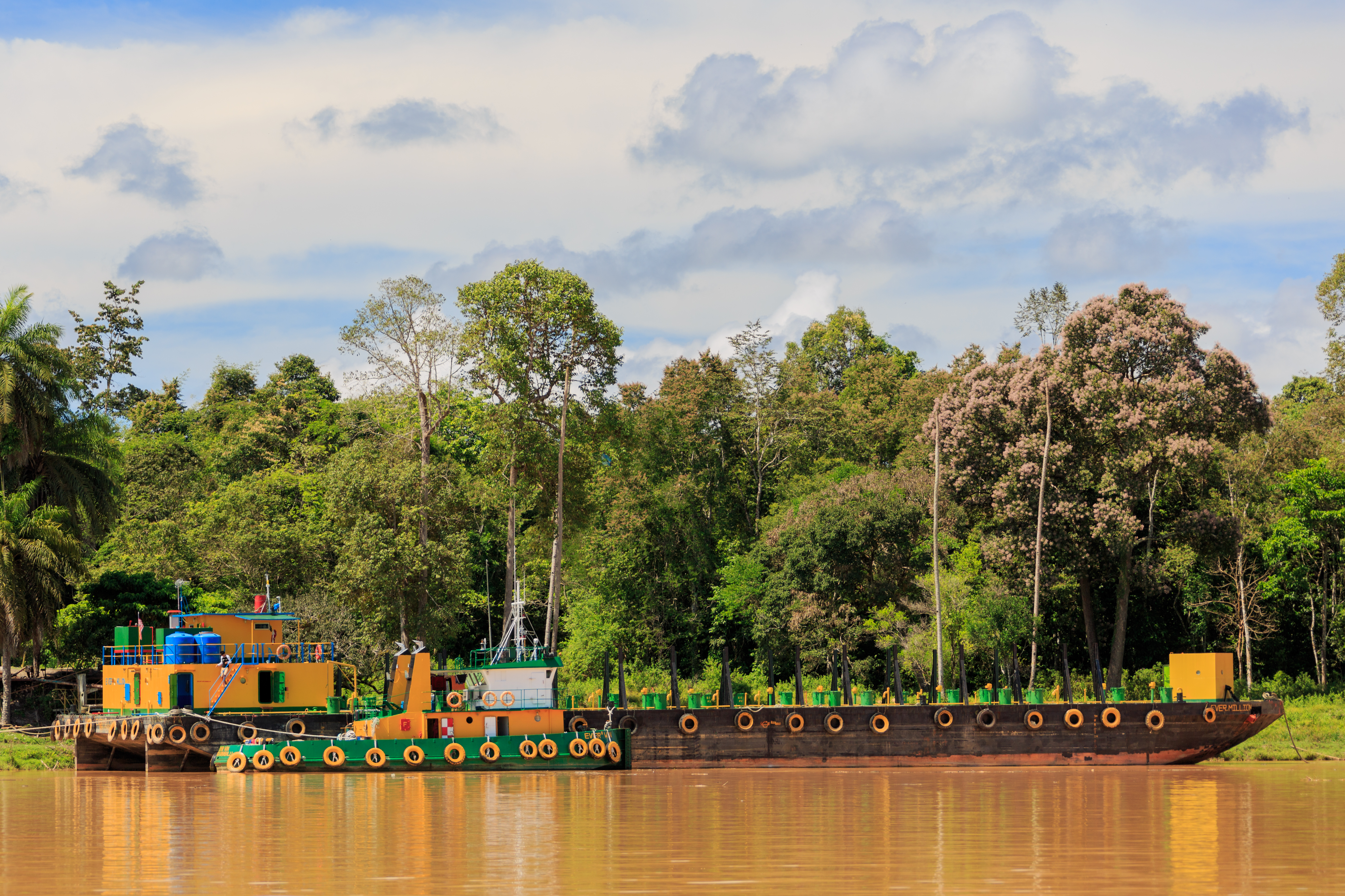 Sukau, Sabah: Ships "Ever'Win" and "Ever.'Million" anchoring at Kampung Sukau on River Kinabatangan